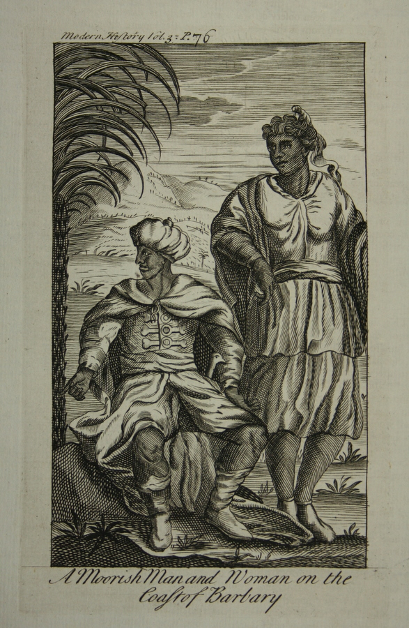 Aurangzeb and Shah Jahan, in copper engravings from "Modern History: or, the Present State of all Nations," by Thomas Salmon, published by Bettesworth & Hitch, London, 1739. More engravings: *Aurangzeb* (shown above) *Shah Jahan* (shown above) *The Indian god Ixora (Ishvara, or Shiva)* *Two forms in which the god Wistnow has appeared* *Banians and Brahmins* *Persians, and a Banian* *Hunting and hawking in Persia* *A Persian of quality, mounted* *A Persian caravanserai* *Chinese* *Chinese architectural plans* *Chinese idols* *The Chinese idol Dabis* *The porcelain tower of Nanking* *Japanese* *Siamese* *Siamese idols and convents* *Siamese architectural plans* *Tonkinese* *A Tonkin pagoda (with elephant and horse)* *People of Batavia* *Malayans at Batavia* *A merchant of Java* *Javanese* *Animals of Java* *Mountain people of Borneo* *A Borneo town* *Turkish gentleman and lady* *Constantinople* *Laplanders* *Russian ladies* *Charles XII, King of Sweden* *A Dutch Burghmaster and his wife* *Middleburgh and Utrecht* *The Stadthouse of Amsterdam* *The Vatican* *The inside of the amphitheater at Verona* *Roman statues* *Greeks* *Greek priests* *The grotto on Antiparos (Greece)* *Moors on the Barbary Coast* *Guineans* *Hottentot men* *Hottentot women* *Indians of North America* *Vitziputsli (Aztec god, Mexico)*